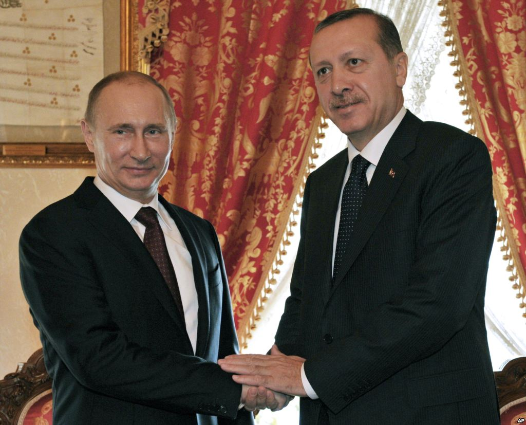 Turkish Prime Minister Recep Tayyip Erdogan, right, and Russian President Vladimir Putin shake hands at their meeting in Istanbul, Turkey